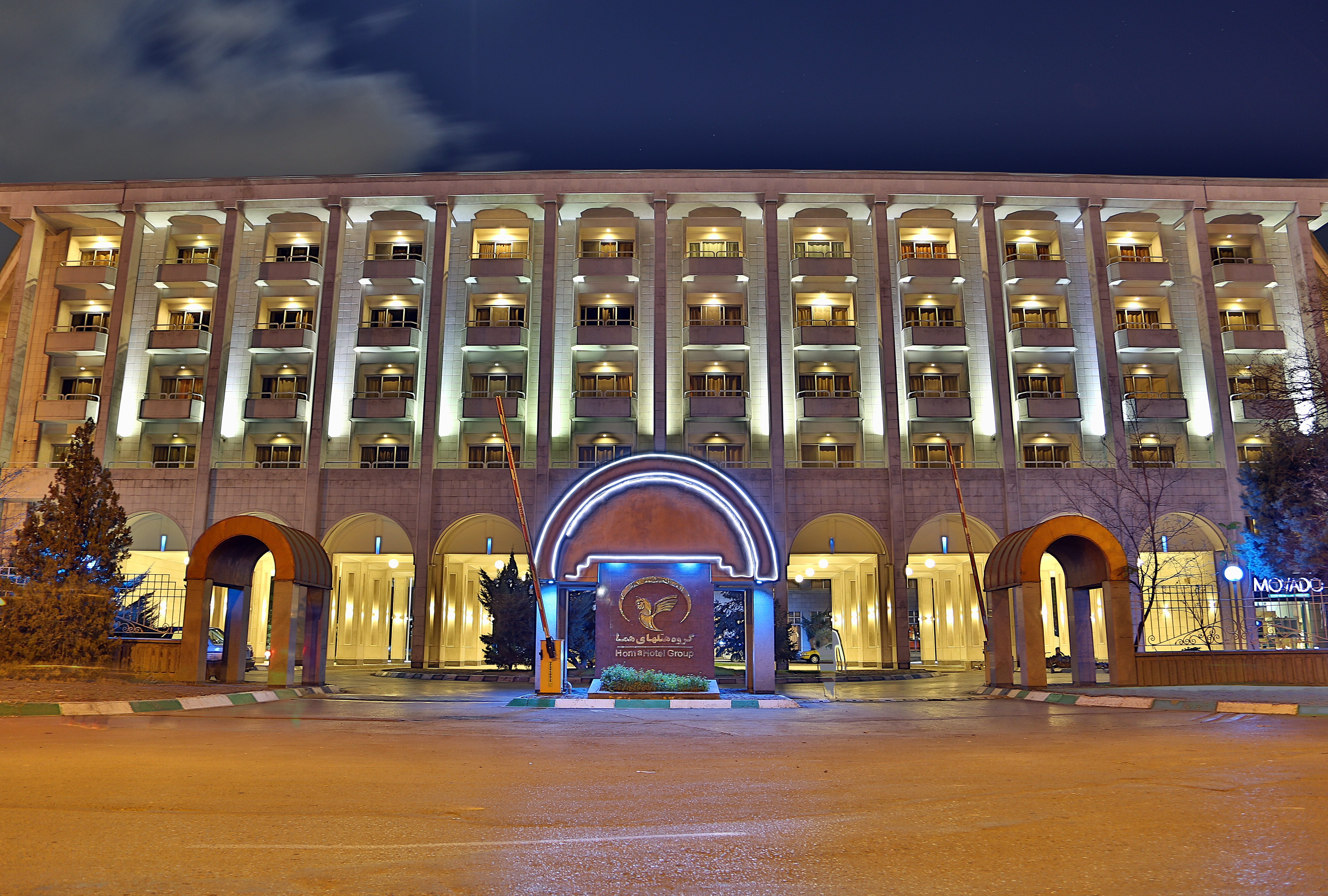 هتل هما 2 مشهد